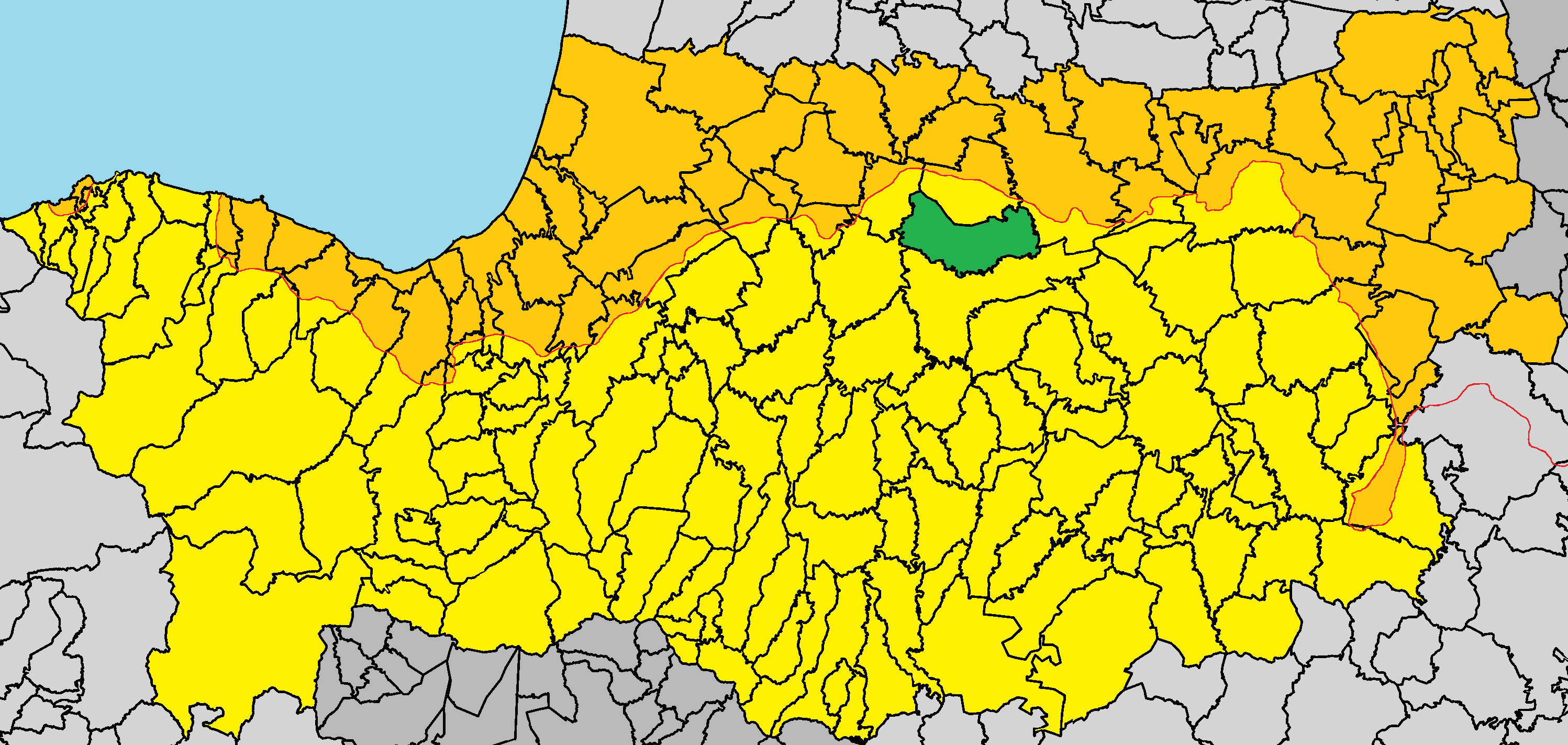 Kokkinotrimithia in Nicosia District.